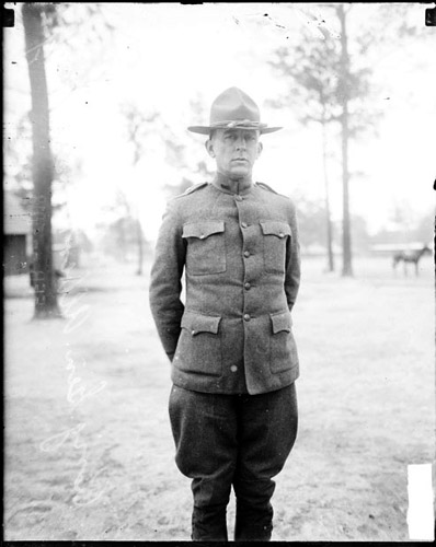 Brigadier General Albert H. Blanding standing with his arms behind his back at Camp Logan in Houston, Texas, 1918. Chicago Daily News negatives collection, Chicago Historical Society.